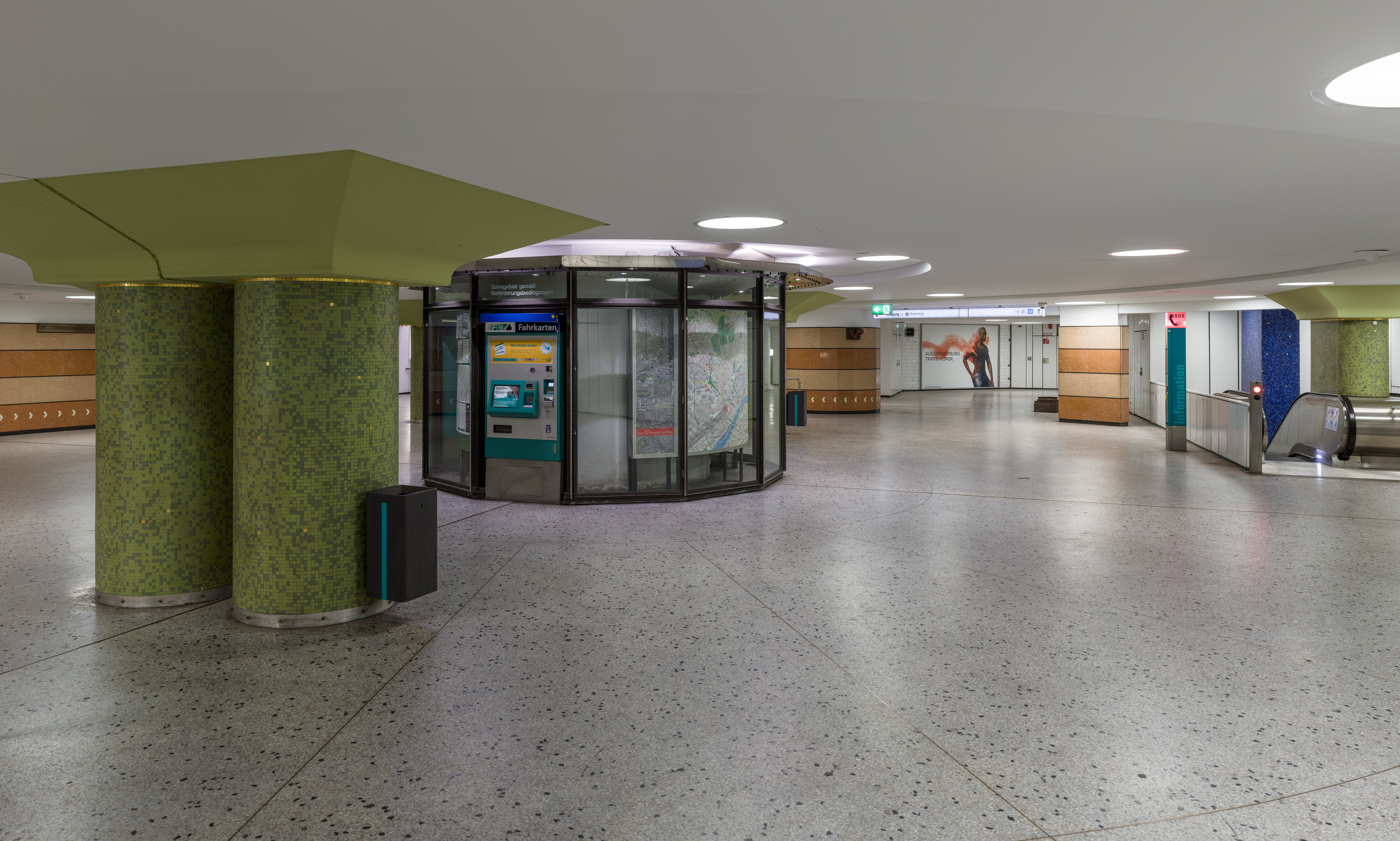 A view of the Mezzanine area of the subway station Dom/Römer, Frankfurt am Main